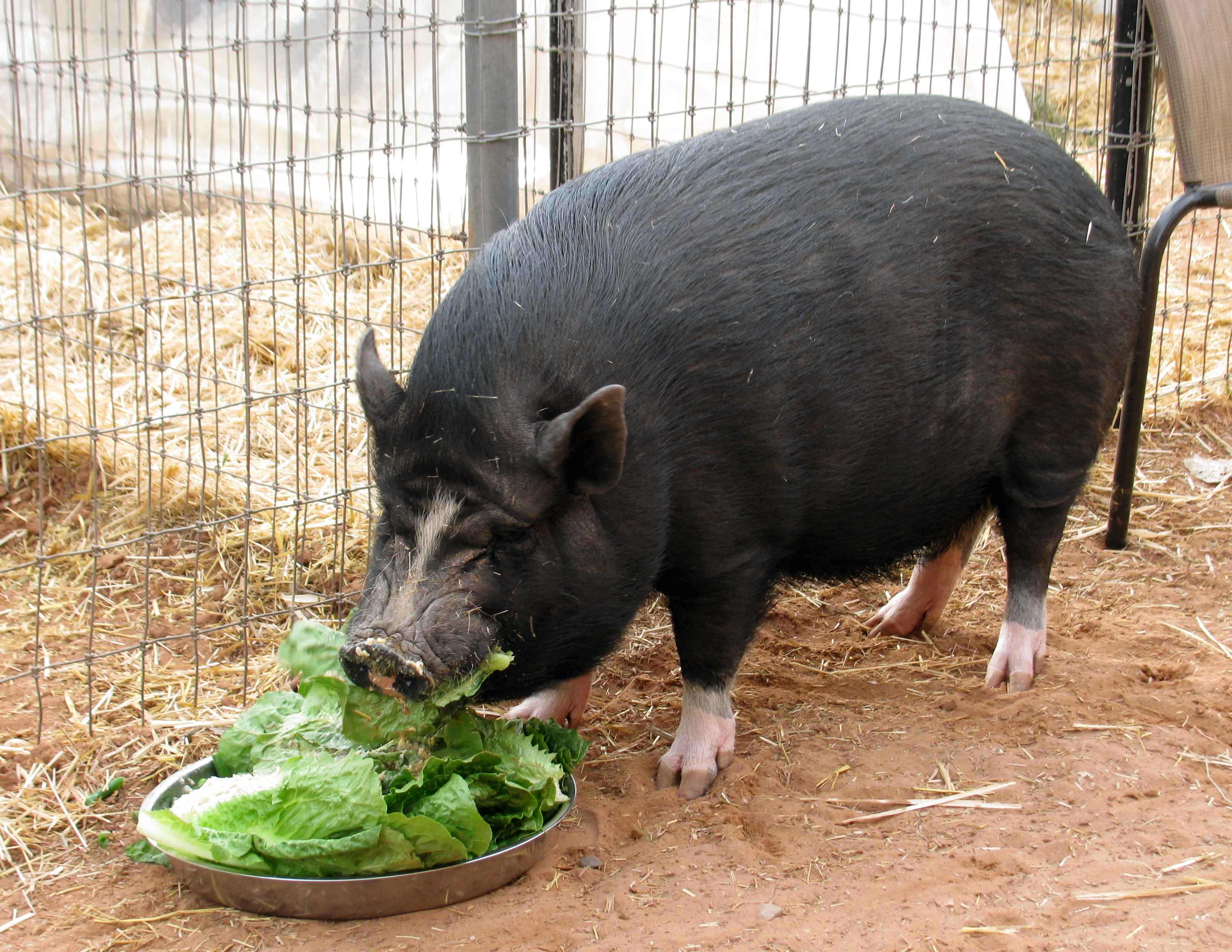 Pepe and his brother Jake were -- what else -- rescued from a hoarding situation. They have to be fed separately, or Jake will try to eat Pepe's food.